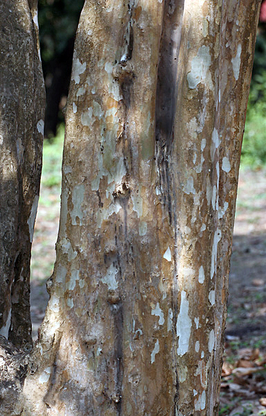 (Giant Crape-myrtle, Queen's Crape-myrtle or Banabá Plant) Lagerstroemia speciosa . Kolkata, West Bengal, India.